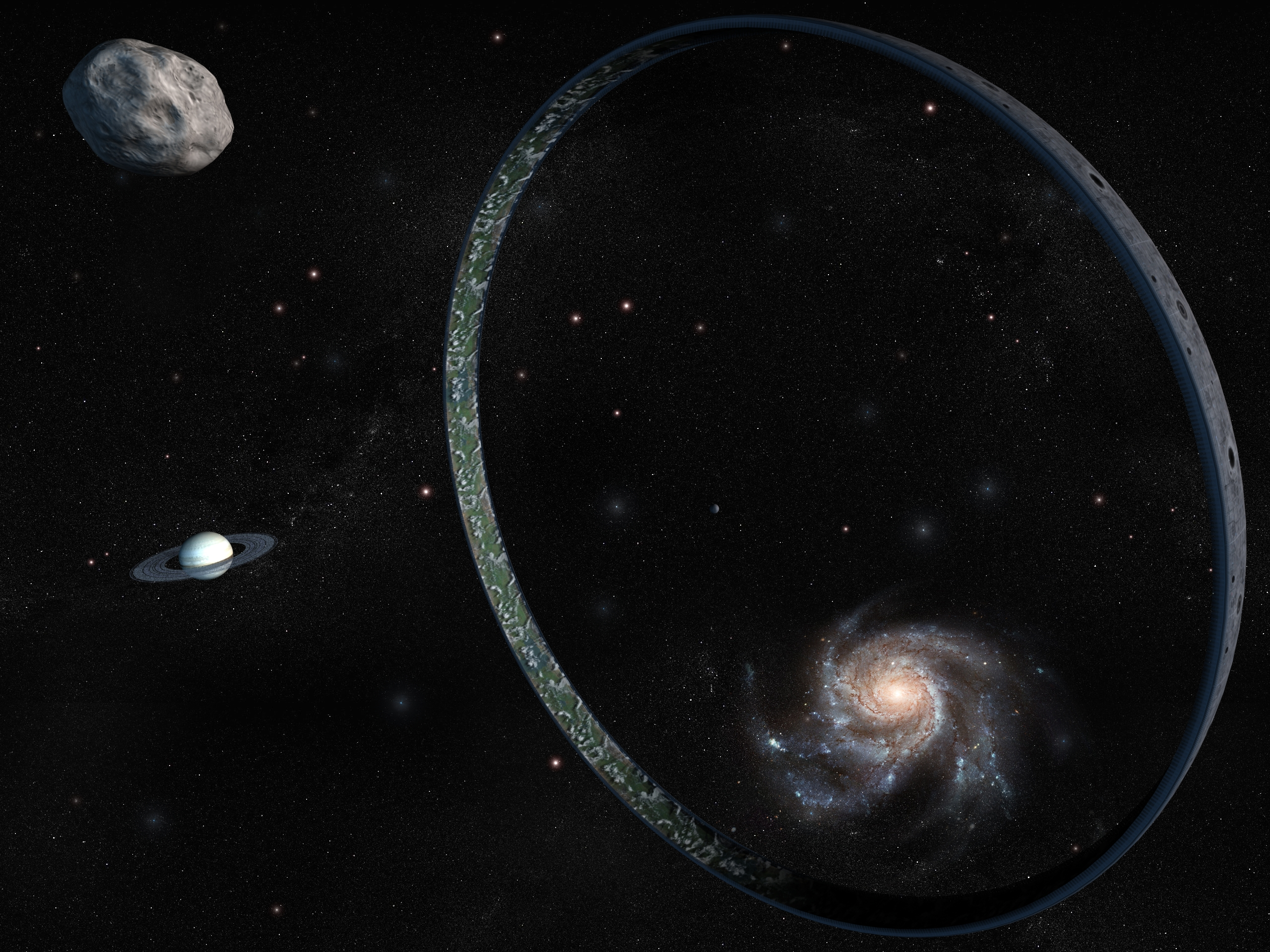 A 3D model of a Culture's orbital.